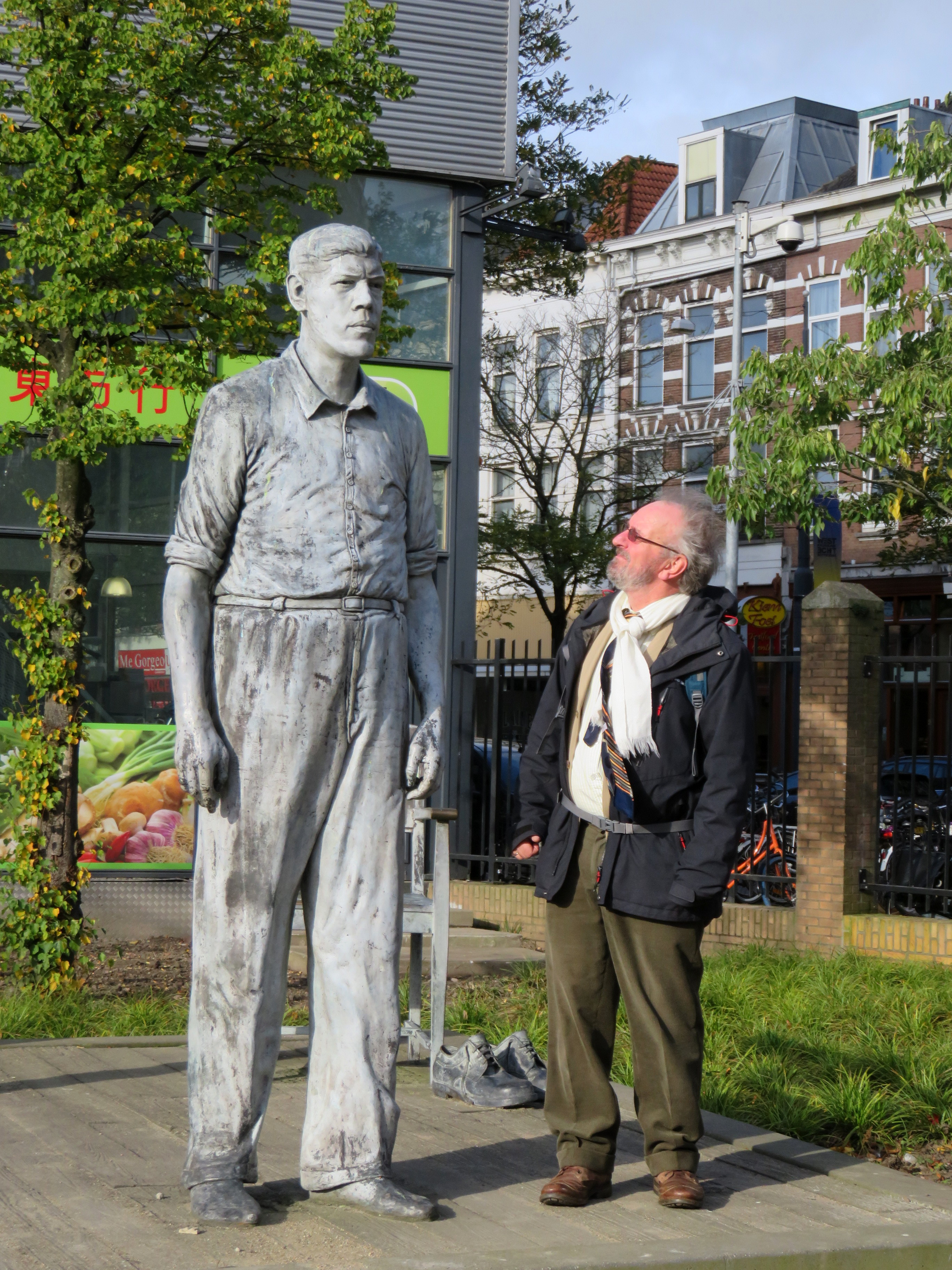 Rigardus Rijnhout, known as the giant of Rotterdam (NL). His length was 2.38 m, the tallest man of Rotterdam